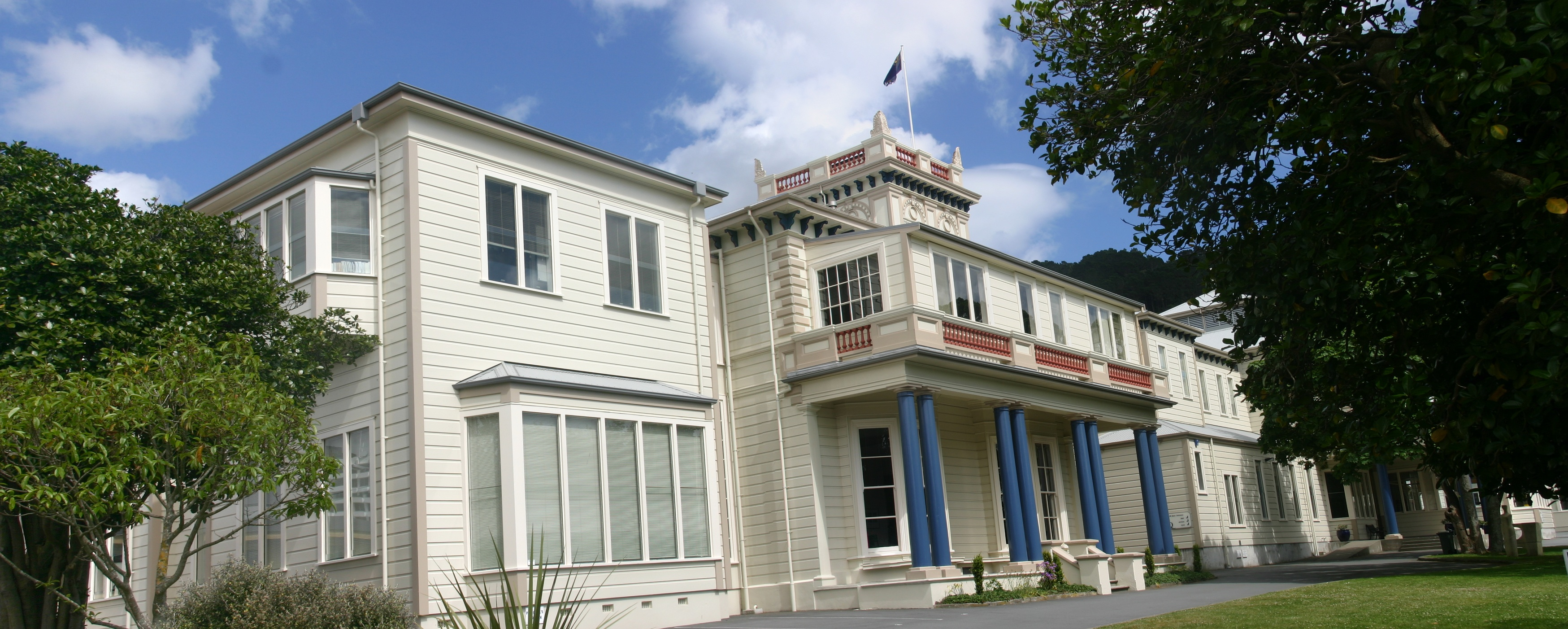 Queen Margaret College. Wellington, New Zealand. Panorama of two images stitched together with Hugin